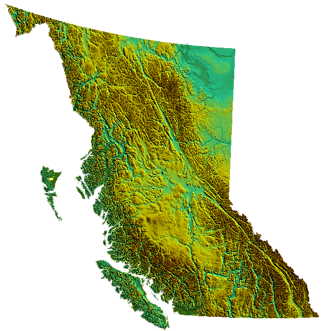 relief of British Columbia, Canada produced from USGS data